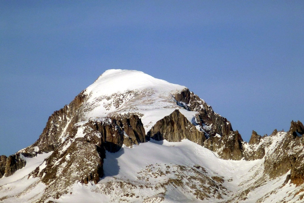 Galenstock south side